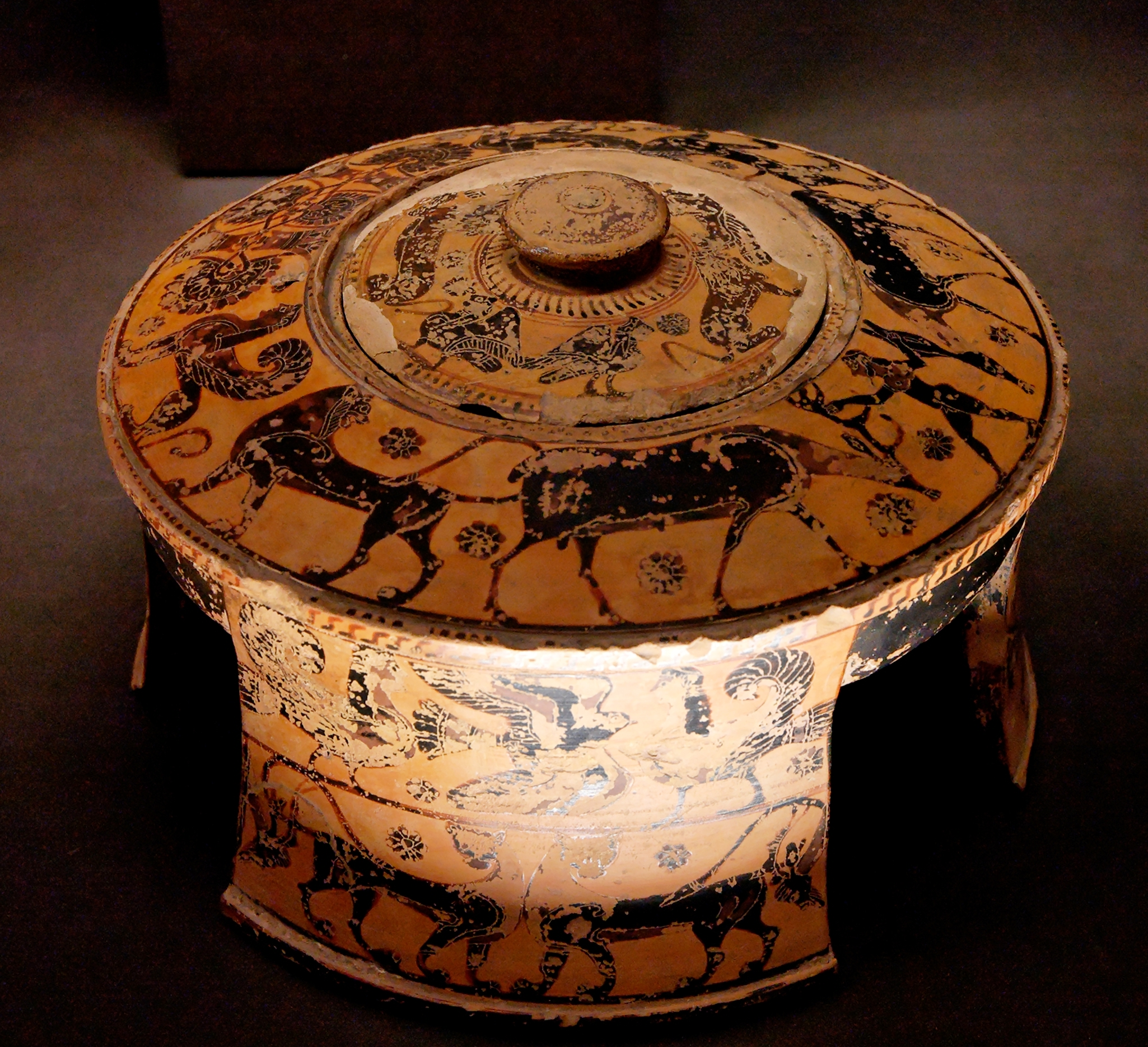 Soulder: master of the animals and animals; legs: sirens and animals. Attic black-figure tripod exaleiptron attributed to the "C" Painter, 580–570 BC. From Ægina.